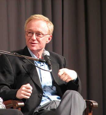 David Grossman, Edit from a image from flickr, see below en wikipedia: David Grossman he wikipedia: דויד גרוסמן